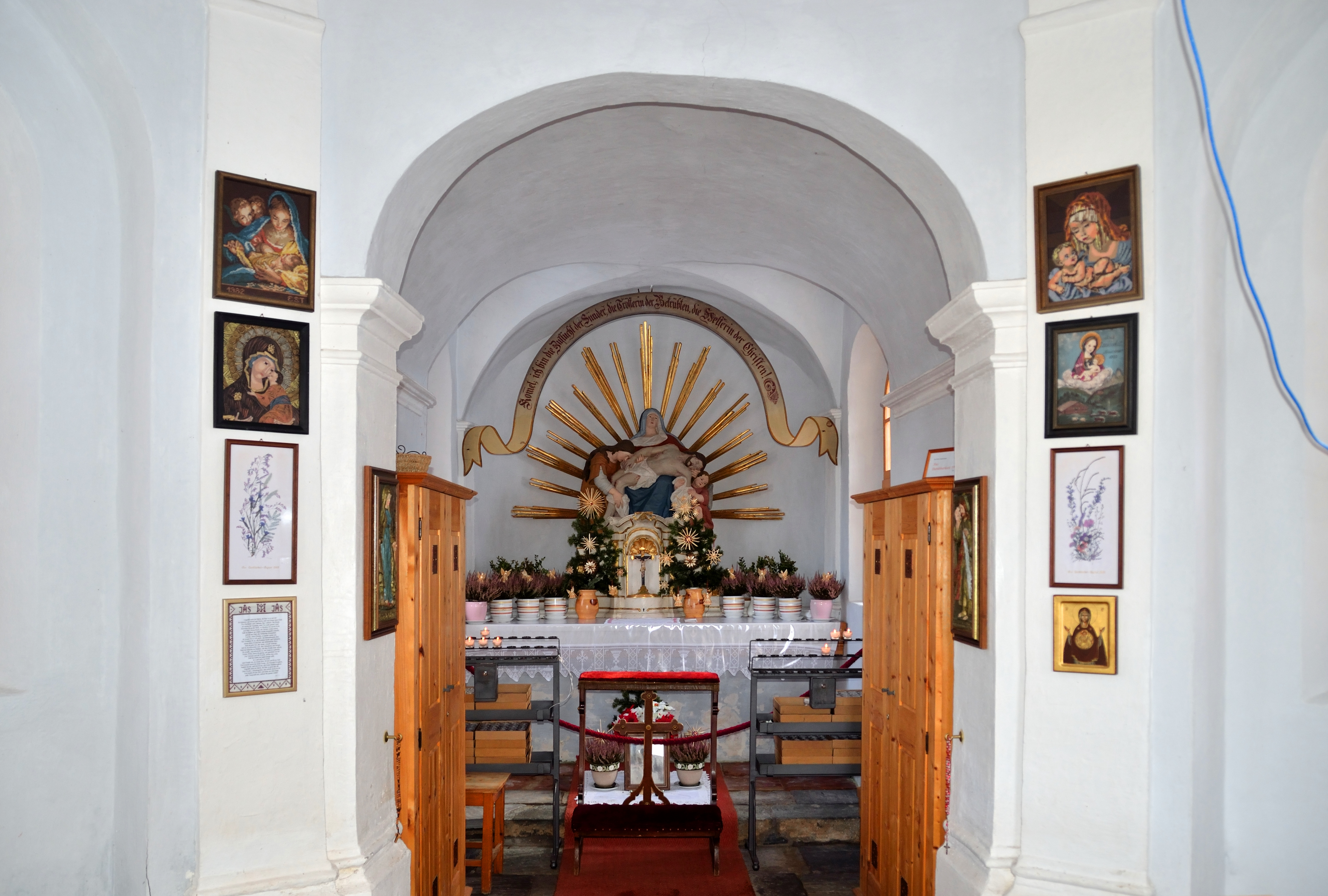 Pilgrimage chapel Maria Elend, village Embach, municipality Lend, Salzburg.